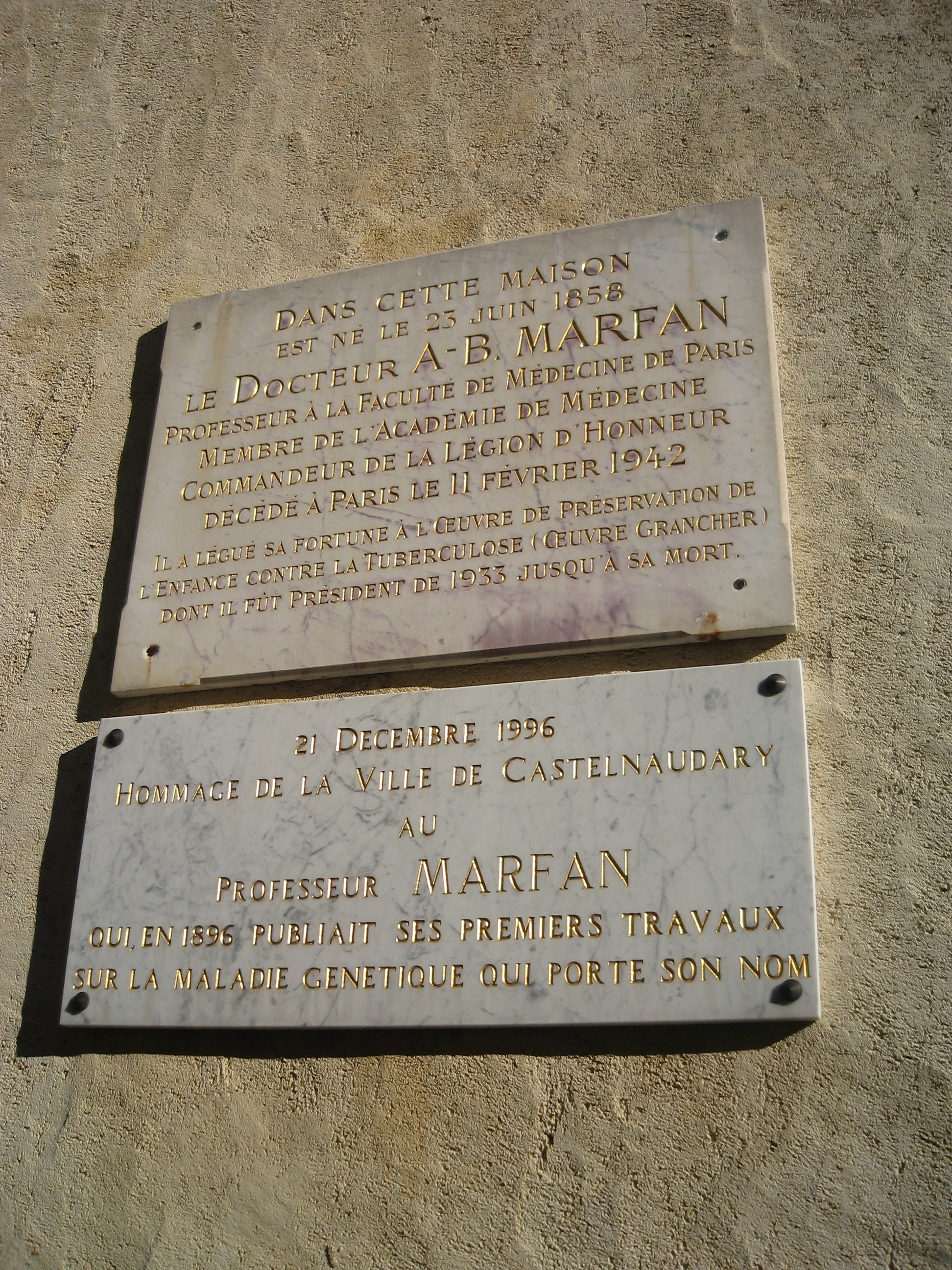 Plaque recording the birth place of Antoine Marfan in Castelnaudary.